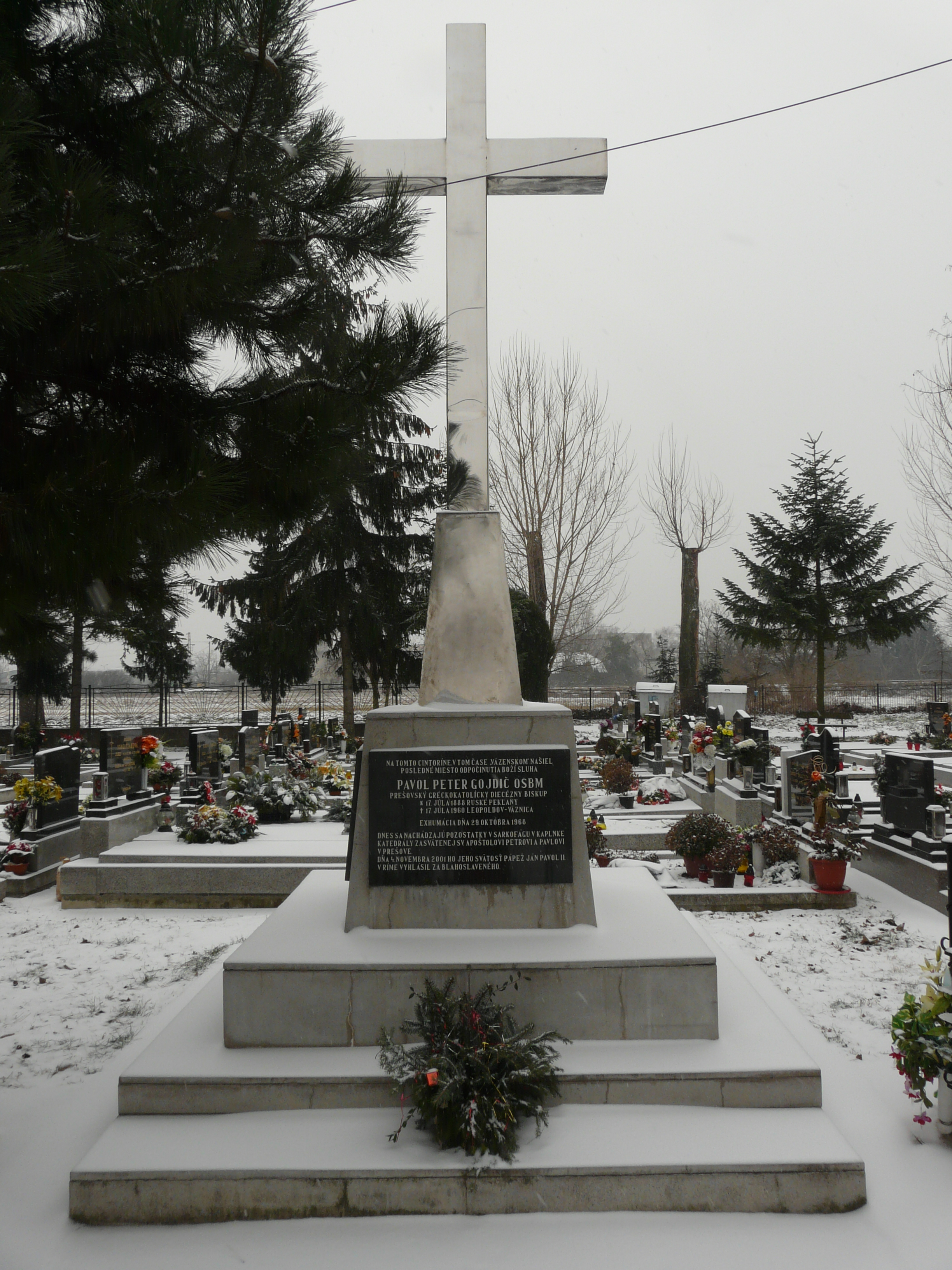 A memory dedicated do Gojdich.Town Leopoldov Slovakia.